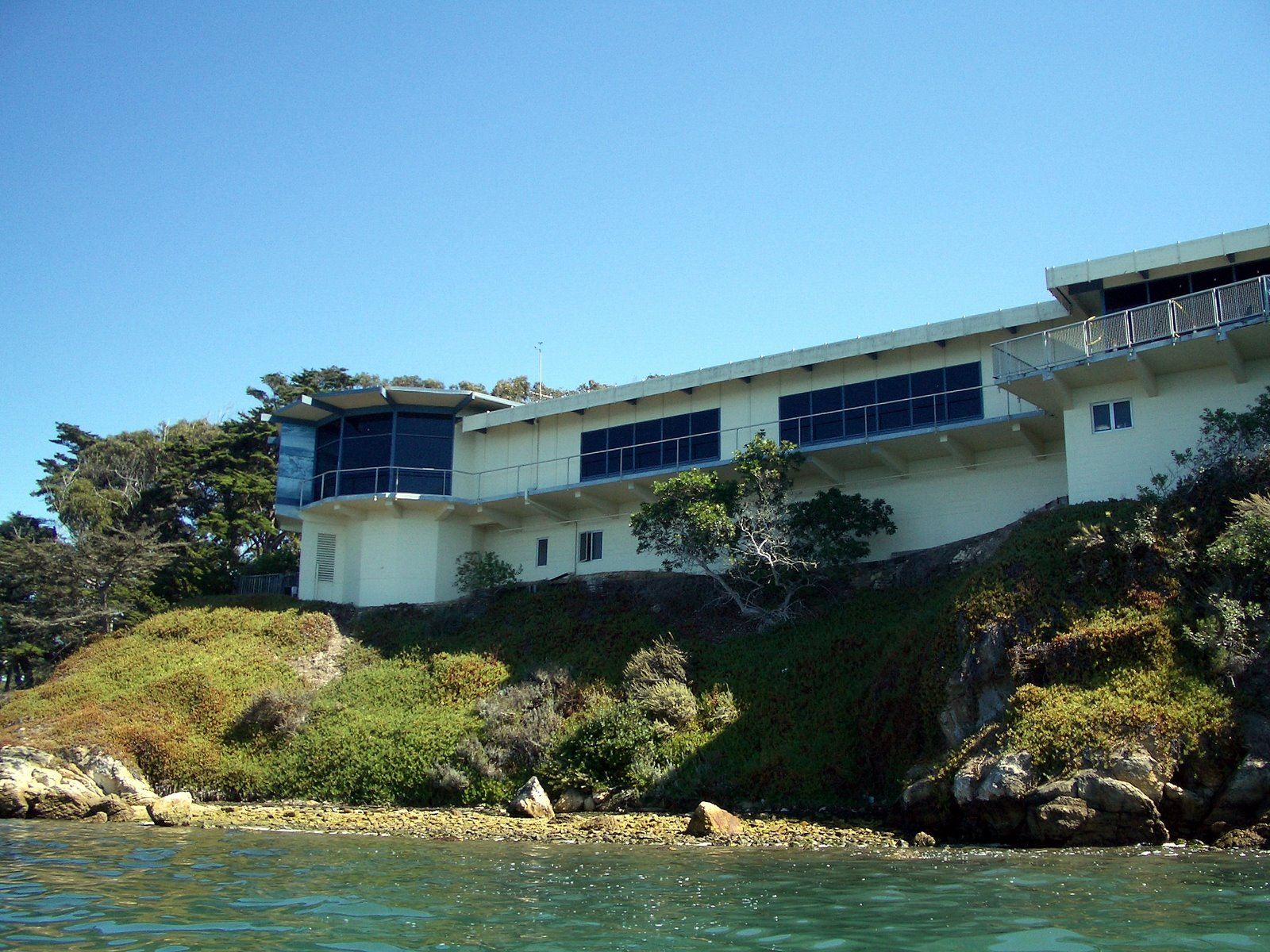 Morro Bay State Park Museum of Natural History — in Morro Bay State Park, Morro Bay, California. 10-2-06, photo by Mike Baird